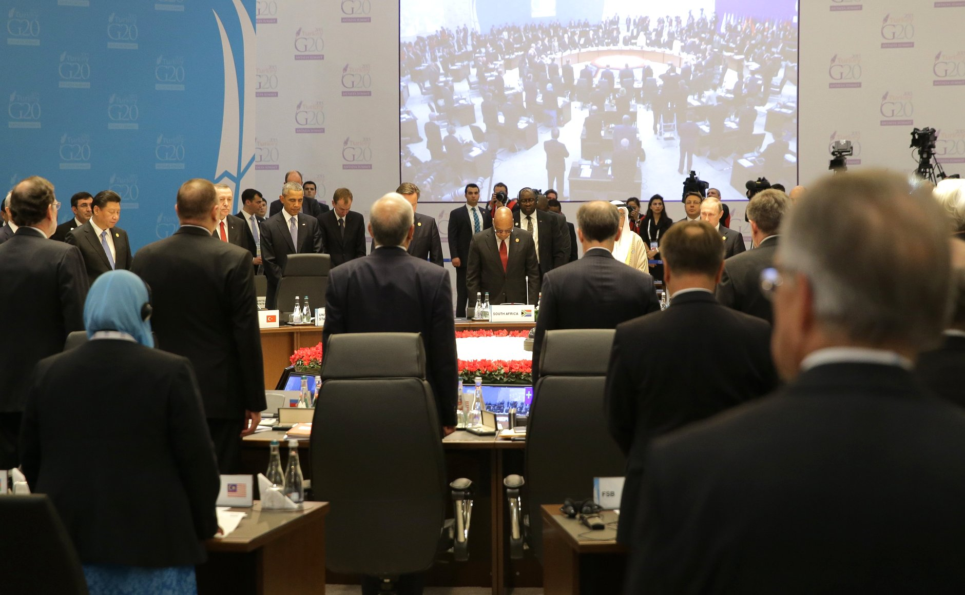 Before the start of the G20 summit. A minute of silence to honour the memory of the victims of the terrorist attacks in Paris.